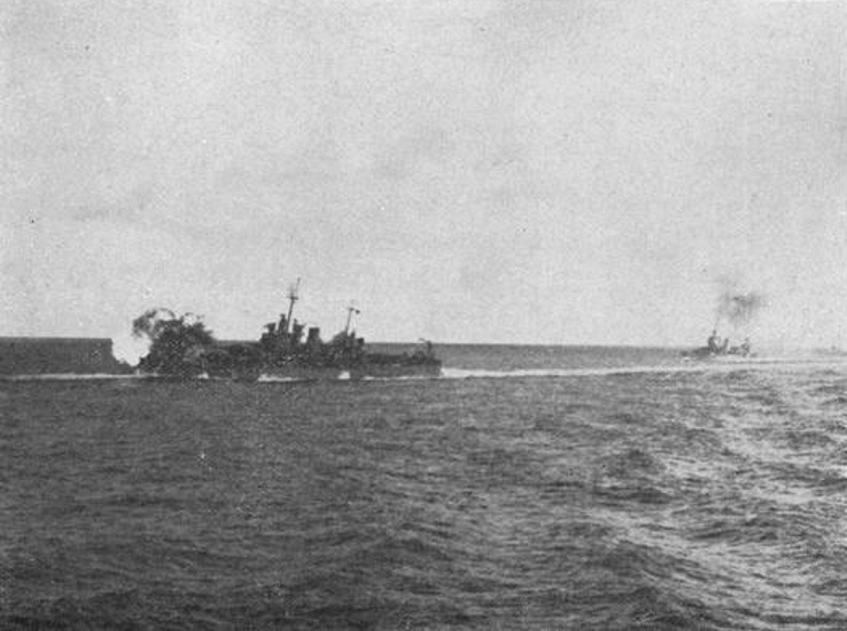 The U.S. Navy cruiser USS Wichita (CA-45) fires on Japanese ships during the Battle off Cape Engaño, 25 October 1944. The heavy cruisers Wichita and USS New Orleans (CA-32), together with the light cruisers USS Santa Fe (CL-60) and USS Mobile (CL-63), sank the light carrier Chiyoda (around 1700 hrs) and the destroyer Hatsuzuki (2059 hrs). New Orleans is visible behind Wichita.